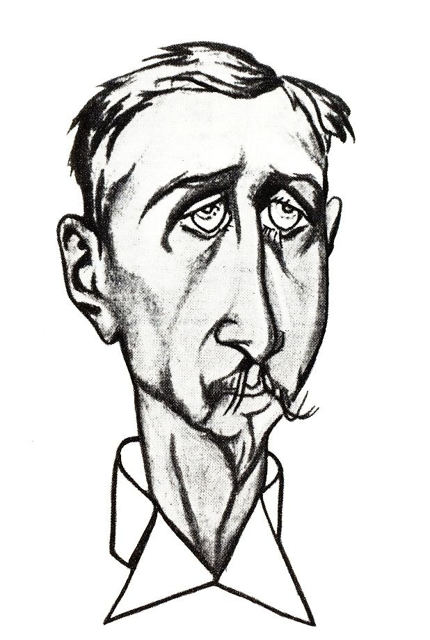 Ivan Bunin by Viktor Deni